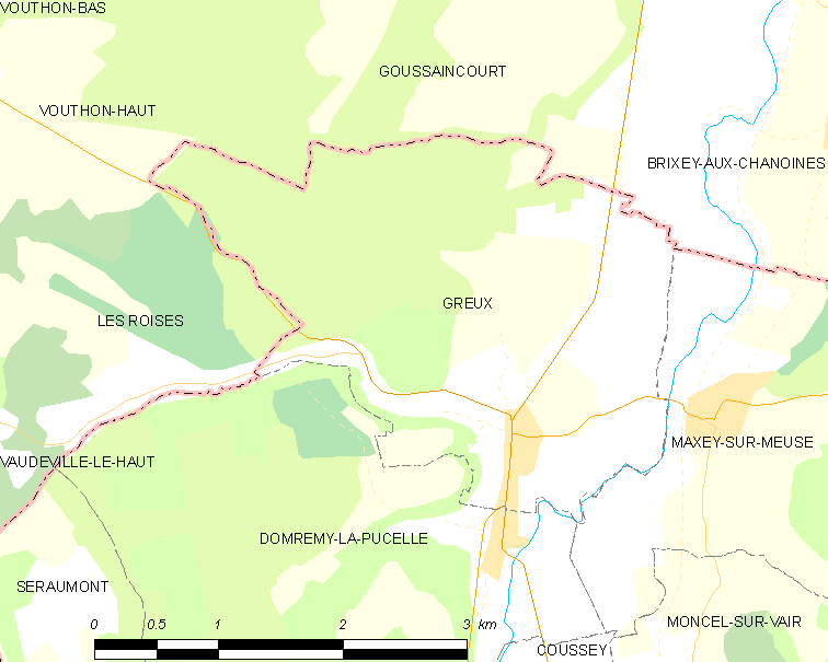 Map of French municipality Greux